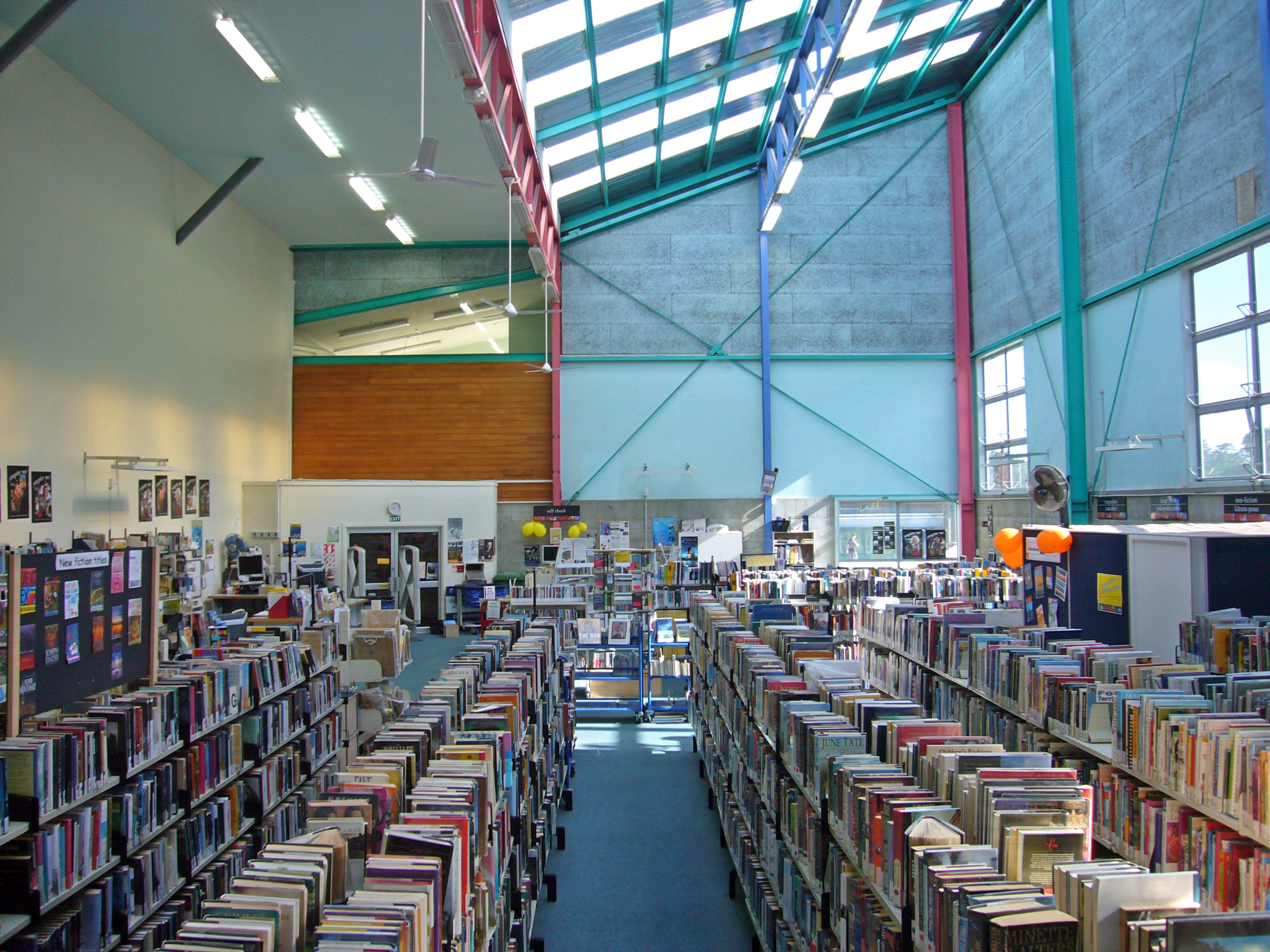 Birkenhead Public Library, North Shore city, New Zealand. Temporary location, converted basketball court. Interior shot, facing northish wall. Manager's office mid-way on east wall. Entrance, northwest corner; flanked by Checkout desk and self-issue machine. Public internet terminal in northeast corner (not visible).